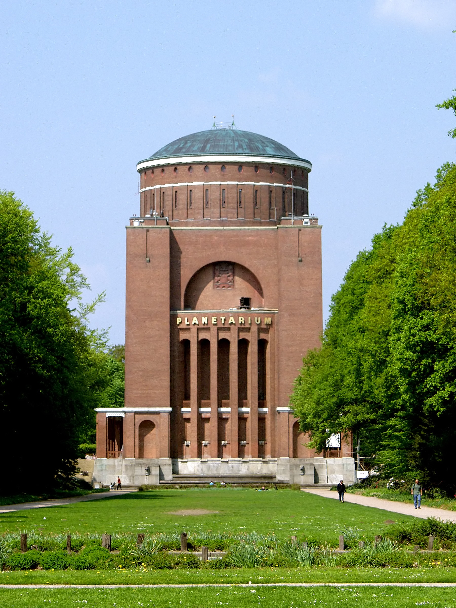 Planetarium in Hamburg, Germany